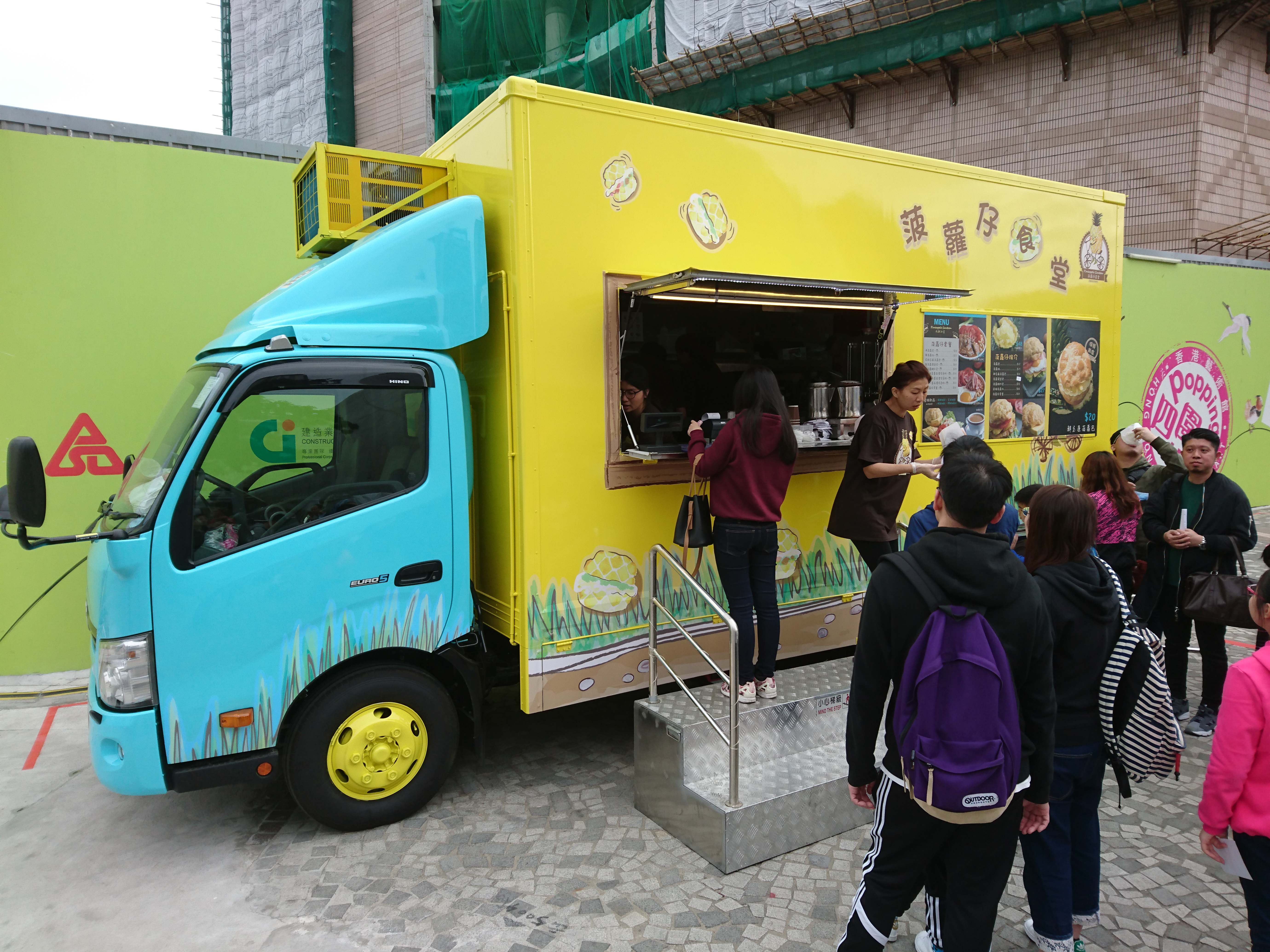 Pineapple Canteen Food Truck in Salisbury Garden